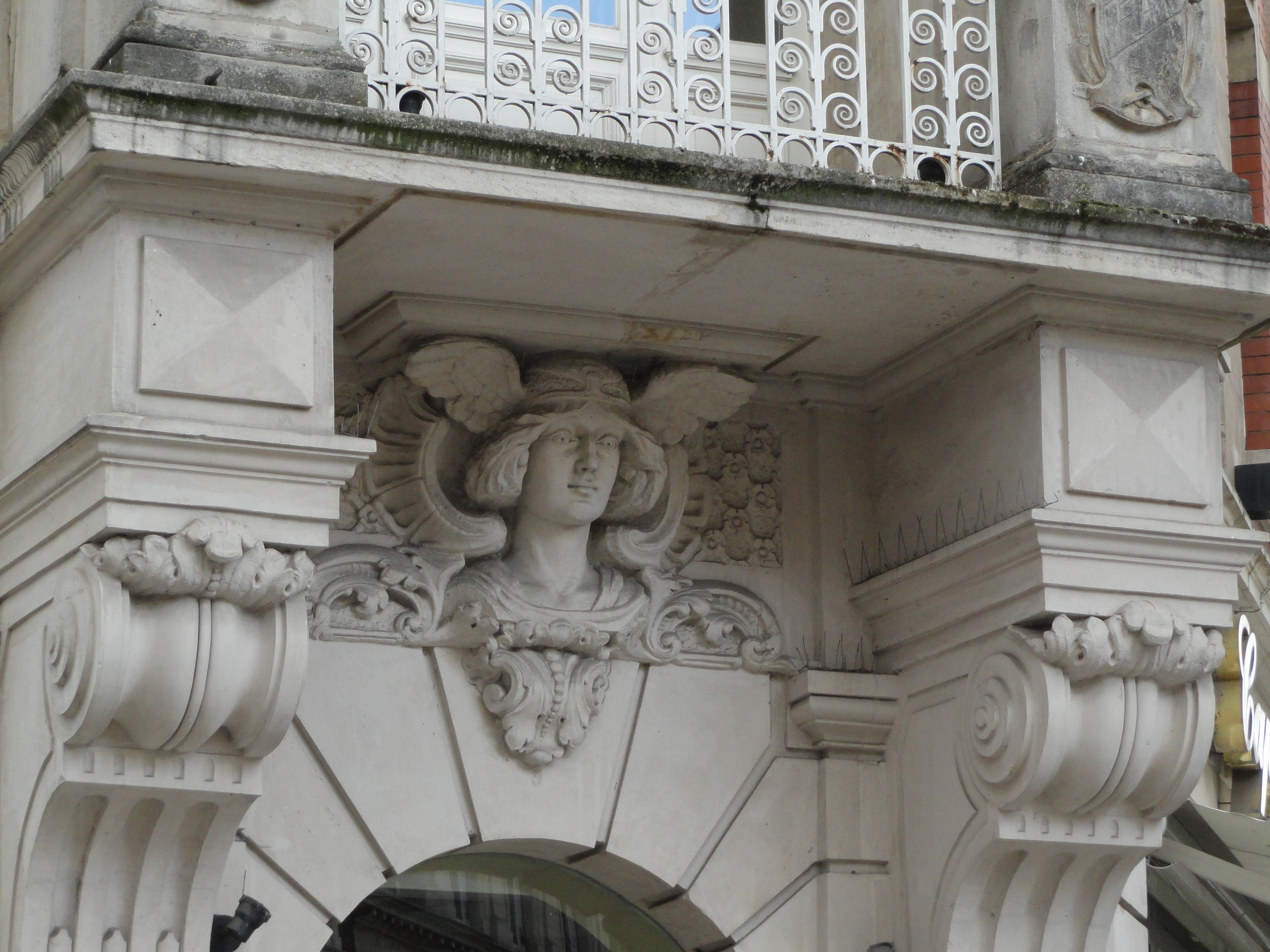 90 rue d'Alzette (1915) in Esch-sur-Alzette - Grand duché du Luxembourg - Tête de Mercure